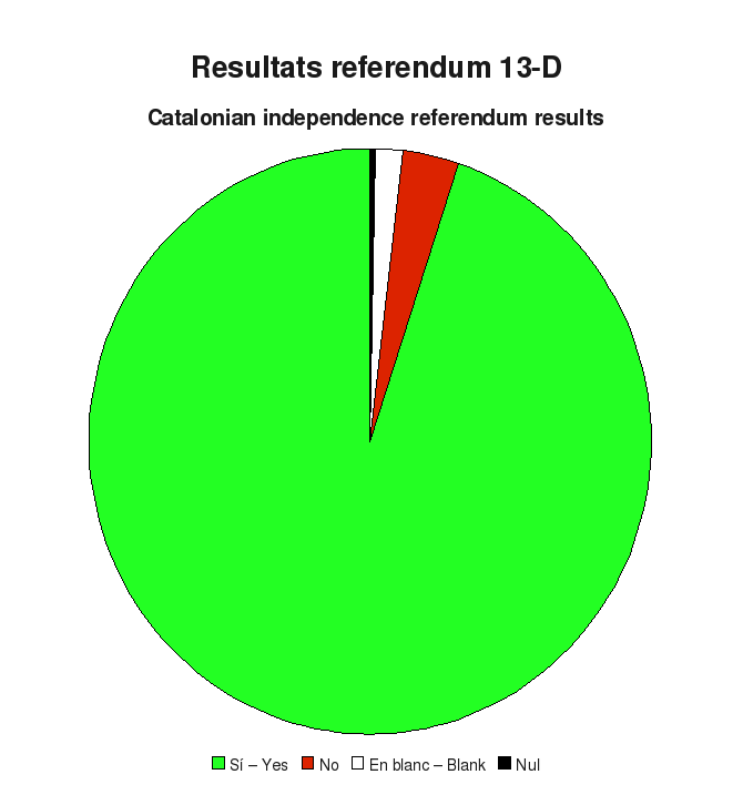 13th Decembre 2009 Catalonian independence referendums, 2009–2010 results. (